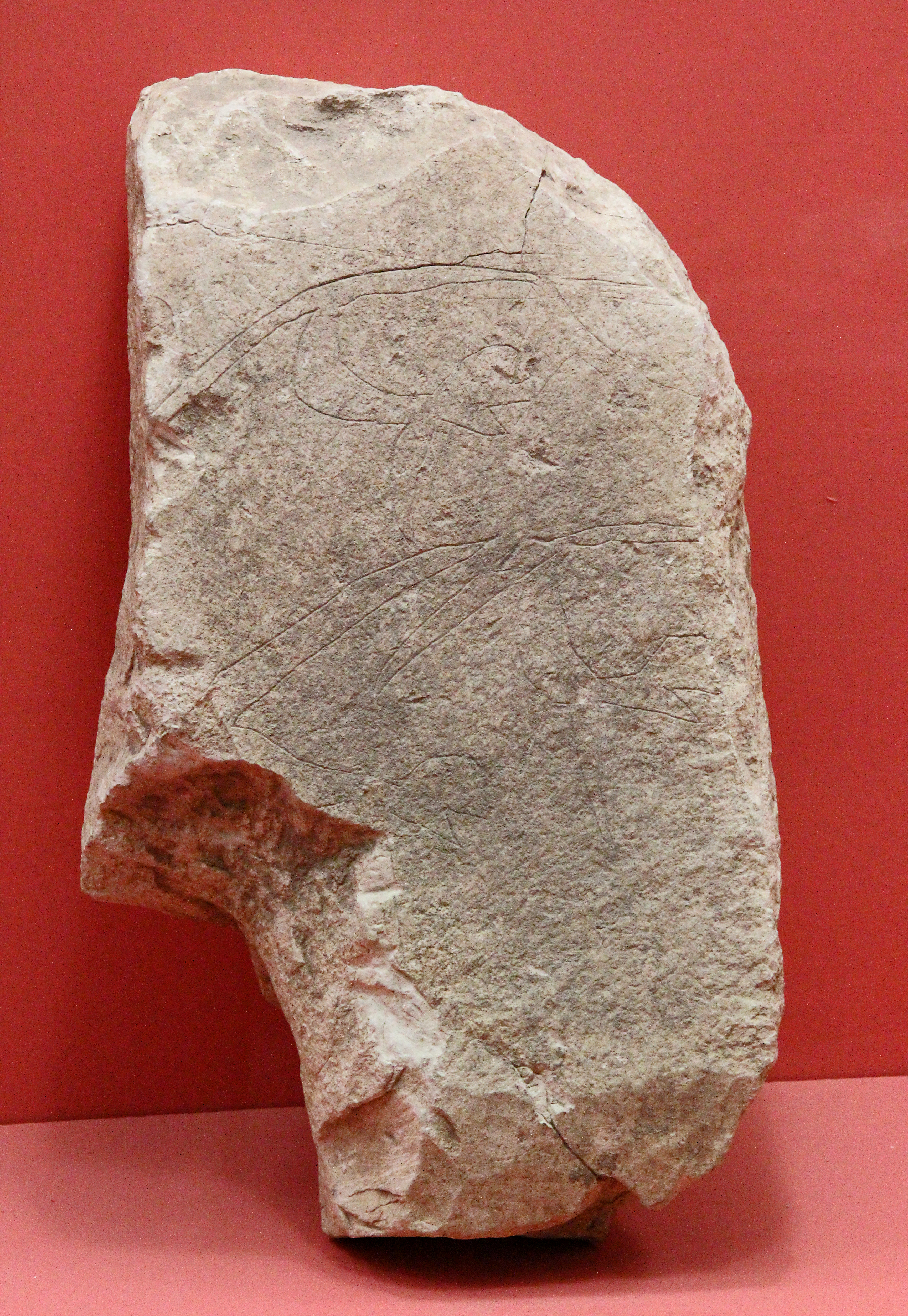 Fragment of Neolithic art from the Nevalı Çori settlement site. In the Şanlıurfa Archaeological Museum collection, Anatolia, Turkey.